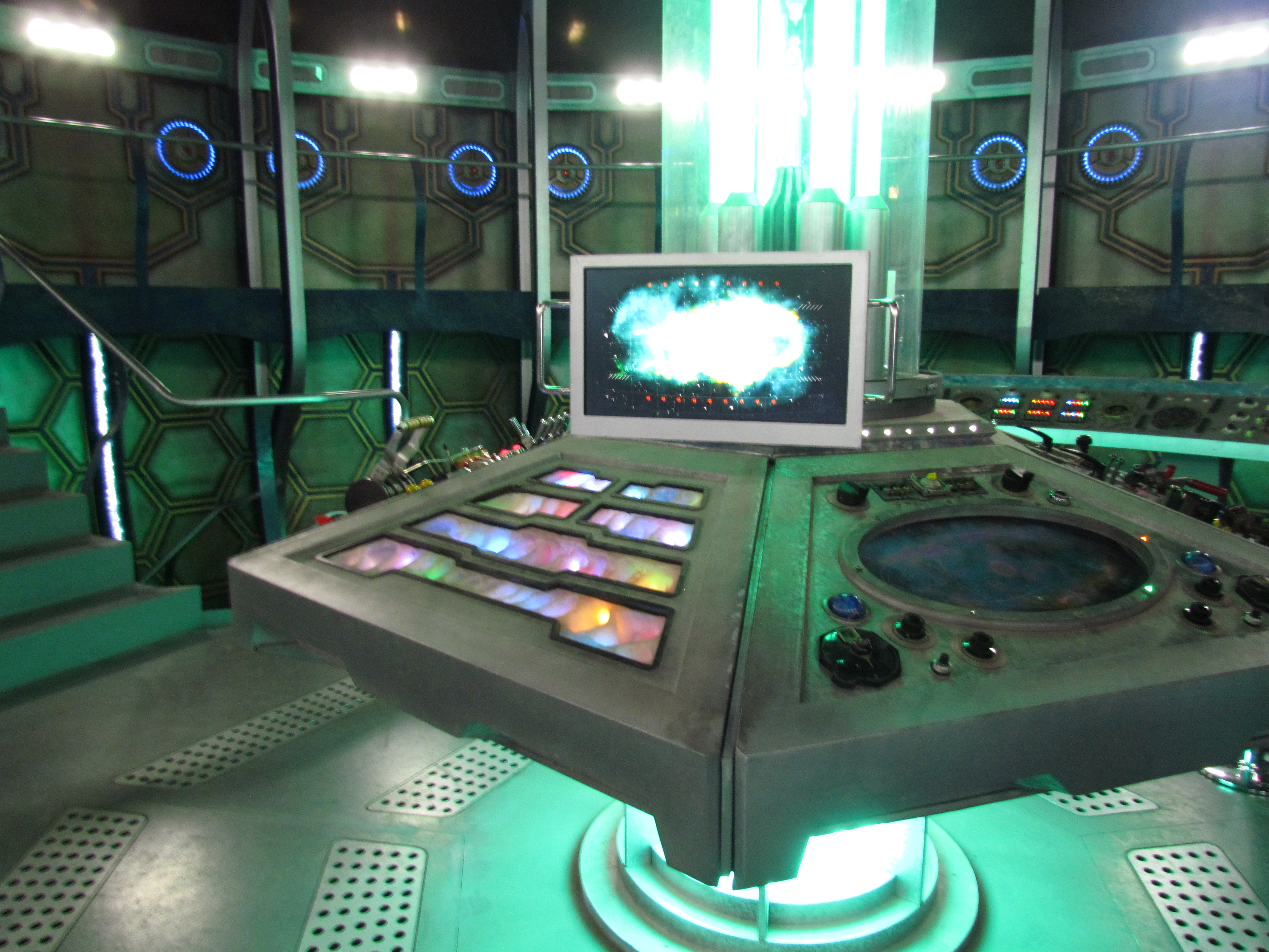 Thanks Mikee for confirming that. Doctor Who TARDIS set